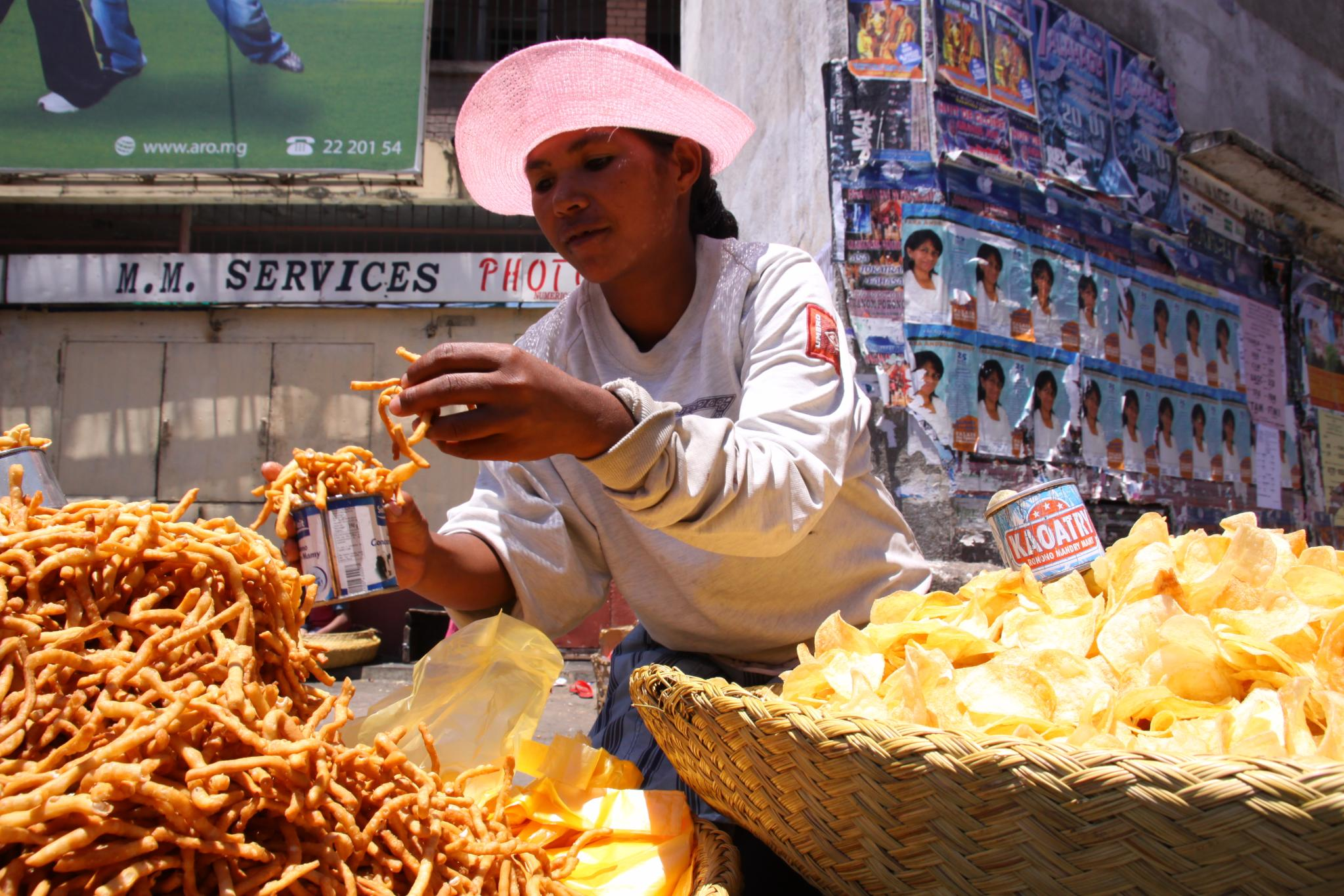 A Merina woman selling kakapizon (caca pigeon) and chips in Antananarivo, Madagascar